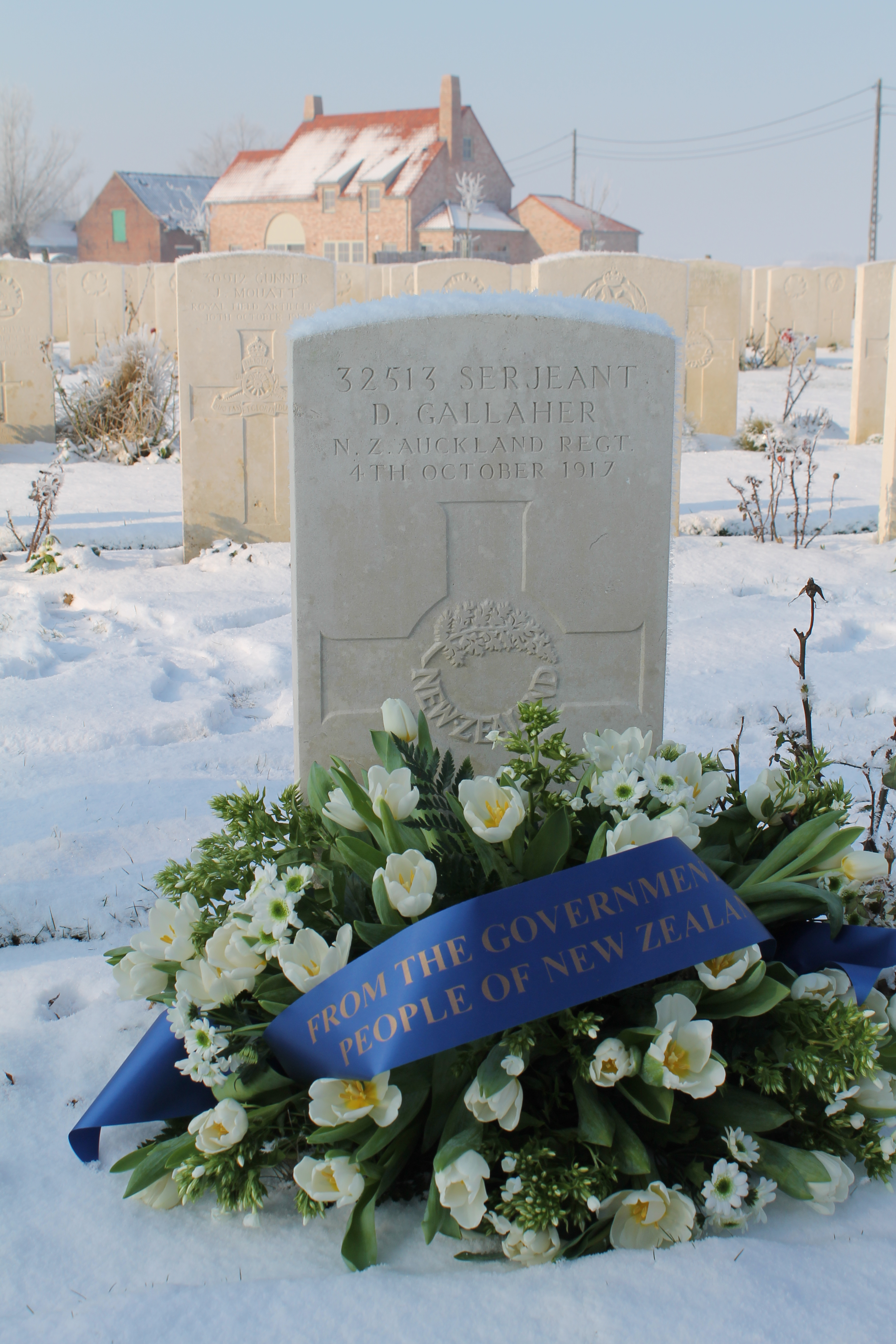 Wreath on gravestone of Dave Gallaher, captain of The Original All Blacks, placed by New Zealand Defence Minister on 4th February 2012.